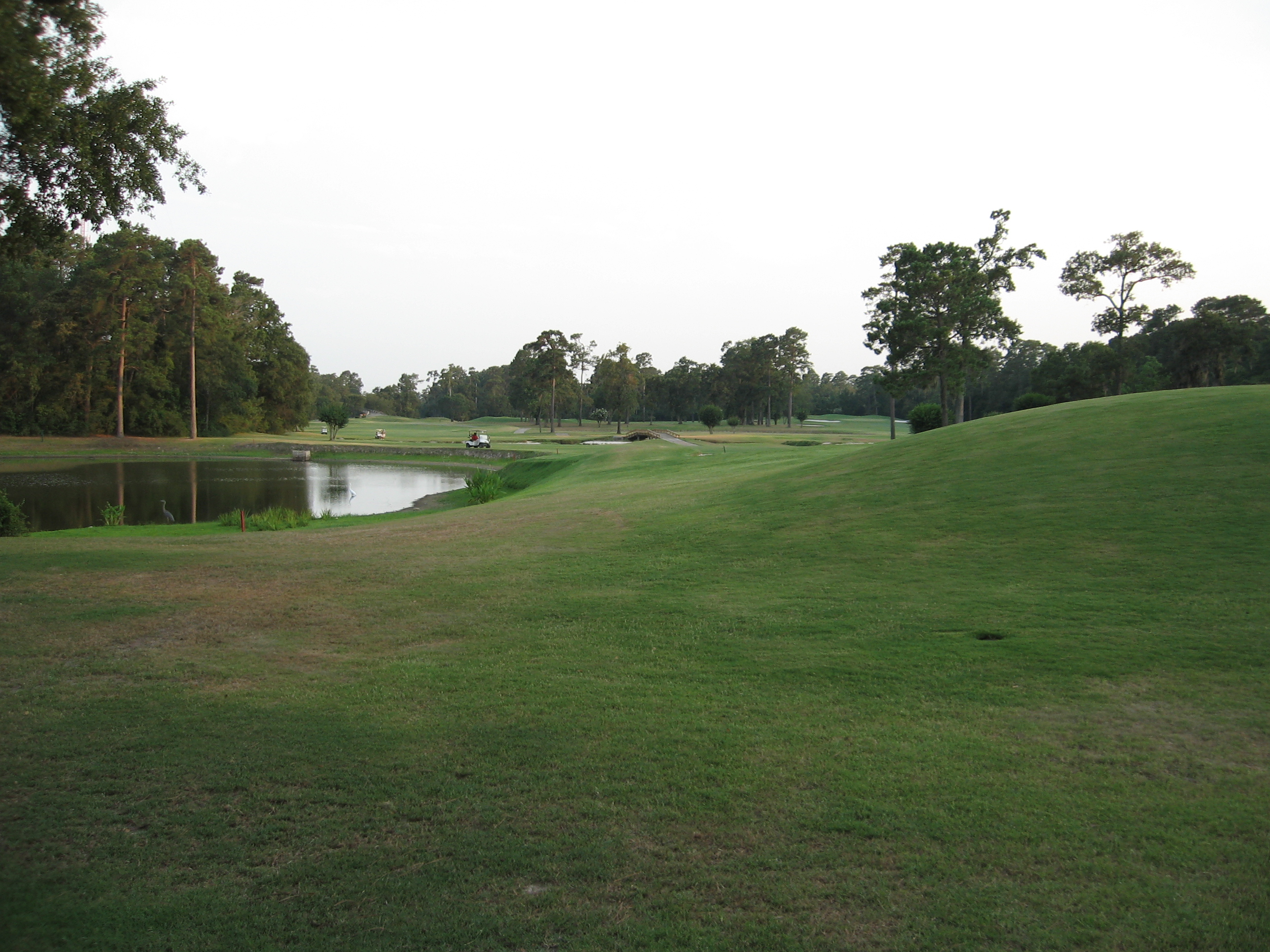 Golf course, The Woodlands Texas